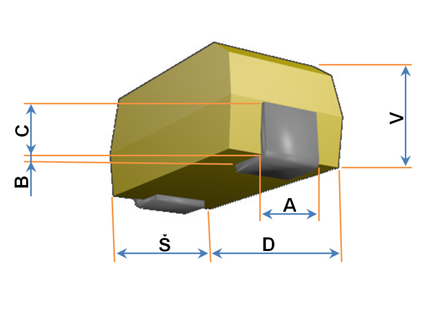 This is image of some tantal SMD capacitor with markings of selected sizes prepared for Czech language (however letters can be erased and changed, feel free to do it).